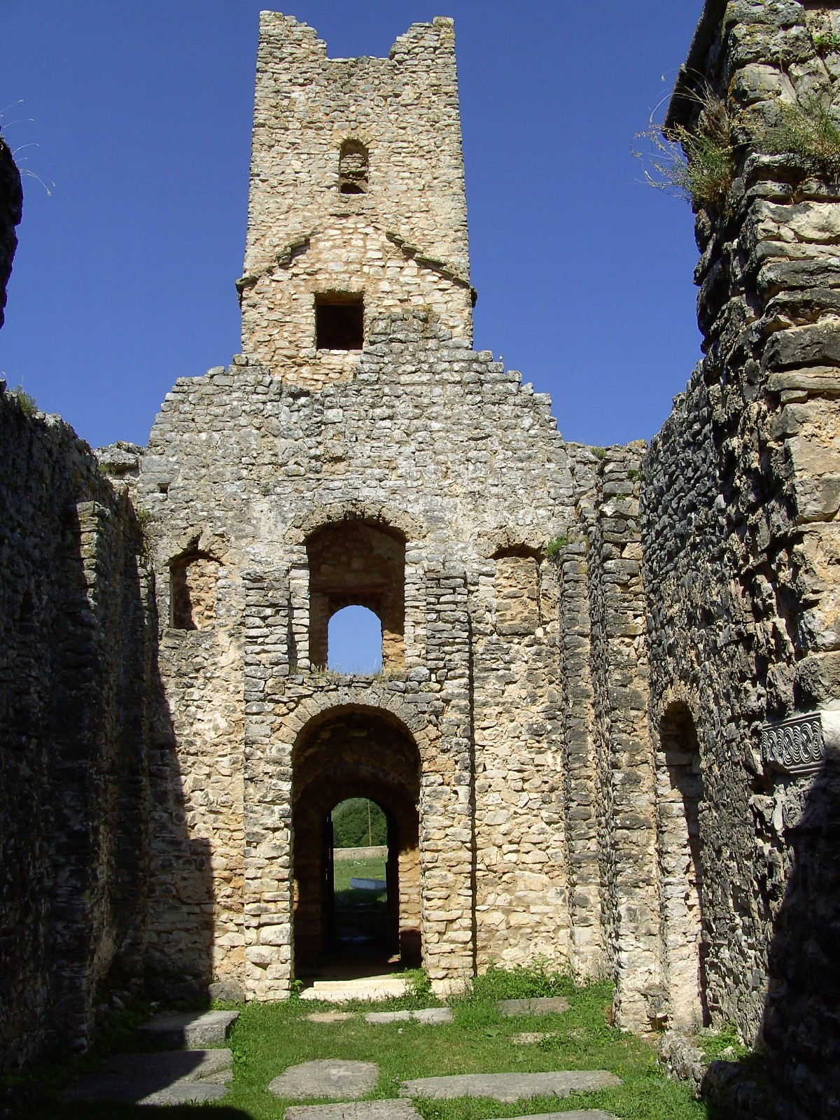 St. Spas church ruins near Cetina, Croatia